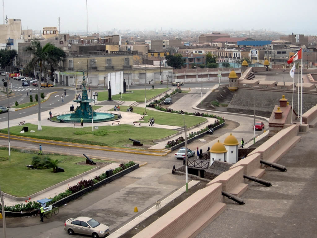 The Museo Historico Militar Real Felipe at Callao, Peru, occupies a Spanish castle built in 1774 to protect Lima from pirates.